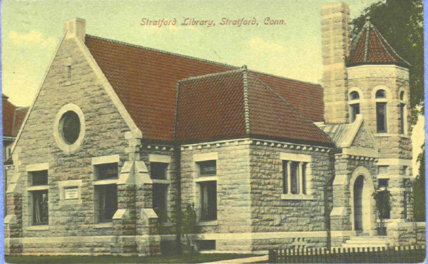 Postcard: Stratford Library, Stratford, Connecticut, postmarked 1909